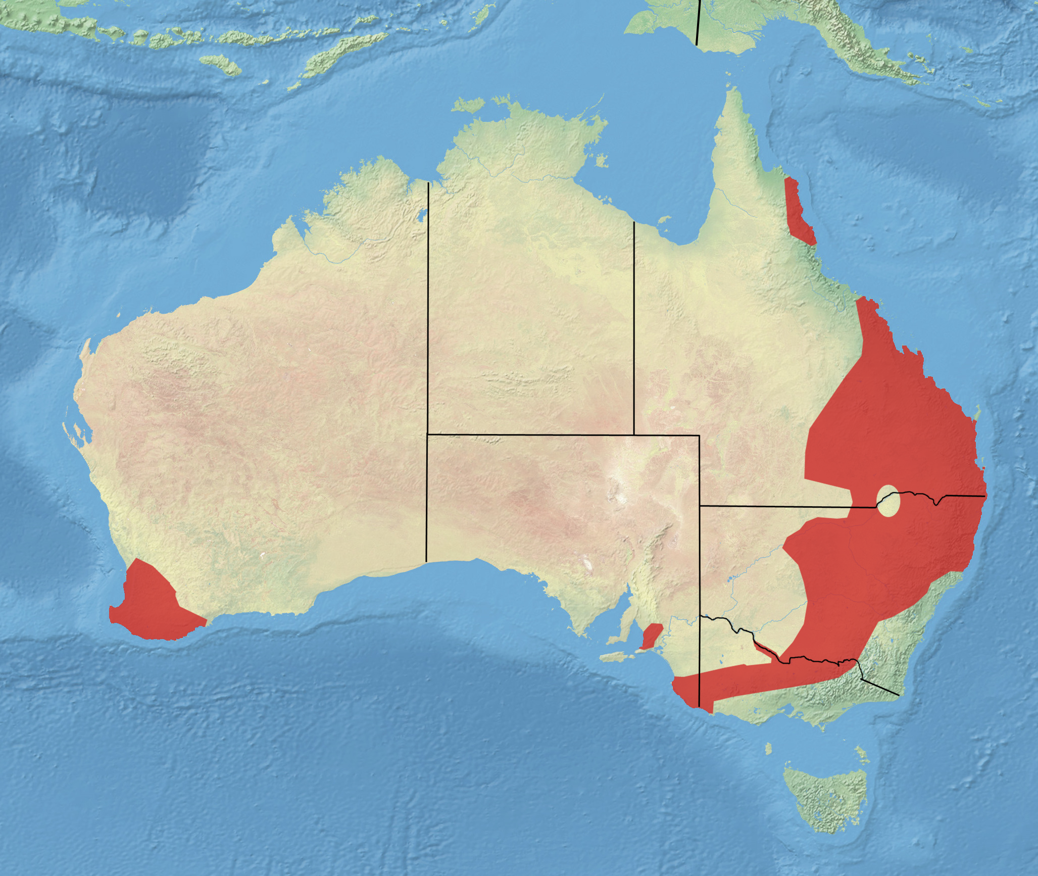 The Distribution of the Yellow-footed Antechinus